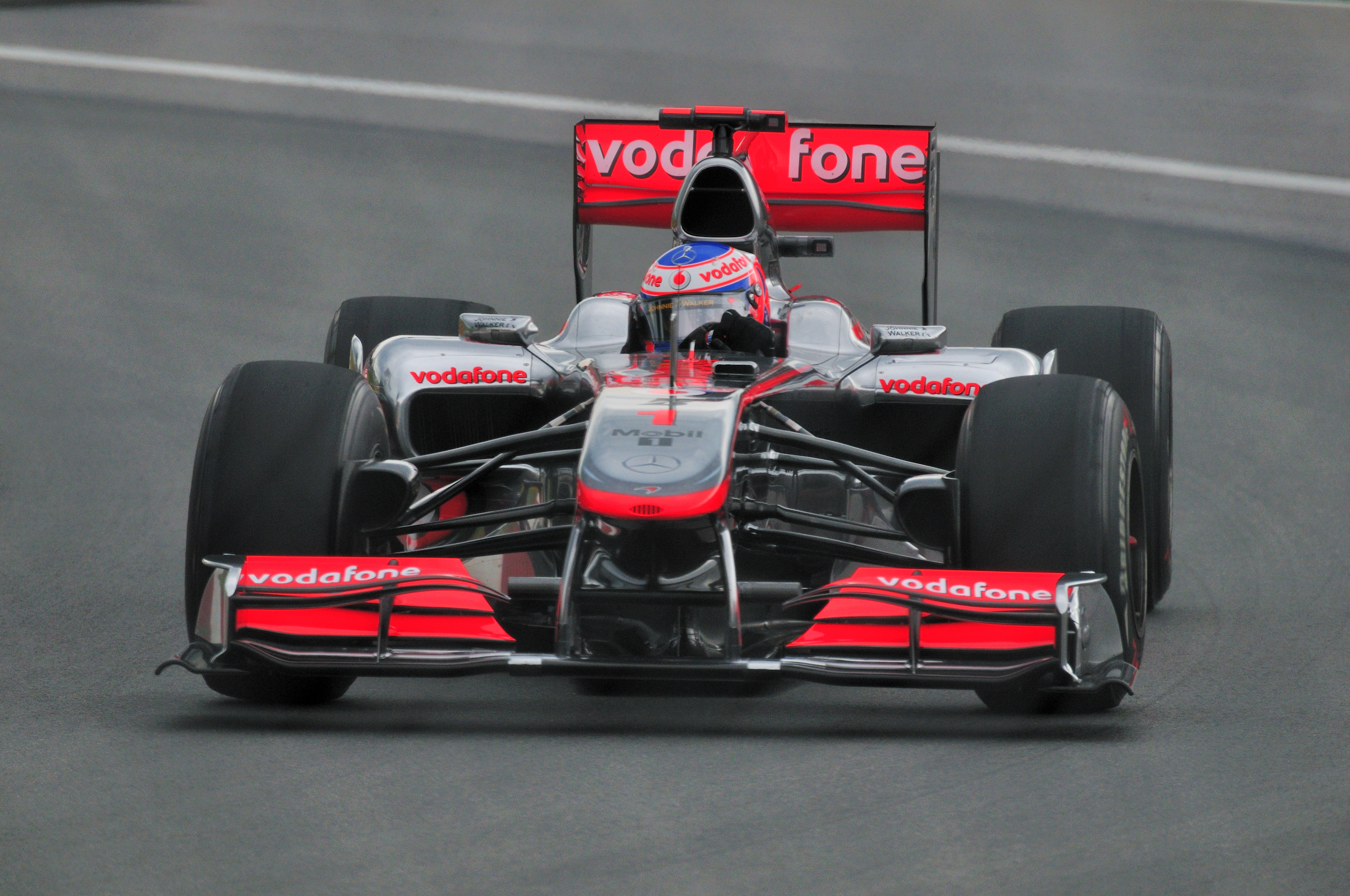 McLaren Mercedes driver Jenson Button of England in the Senna Corner (2010 Montreal GP)